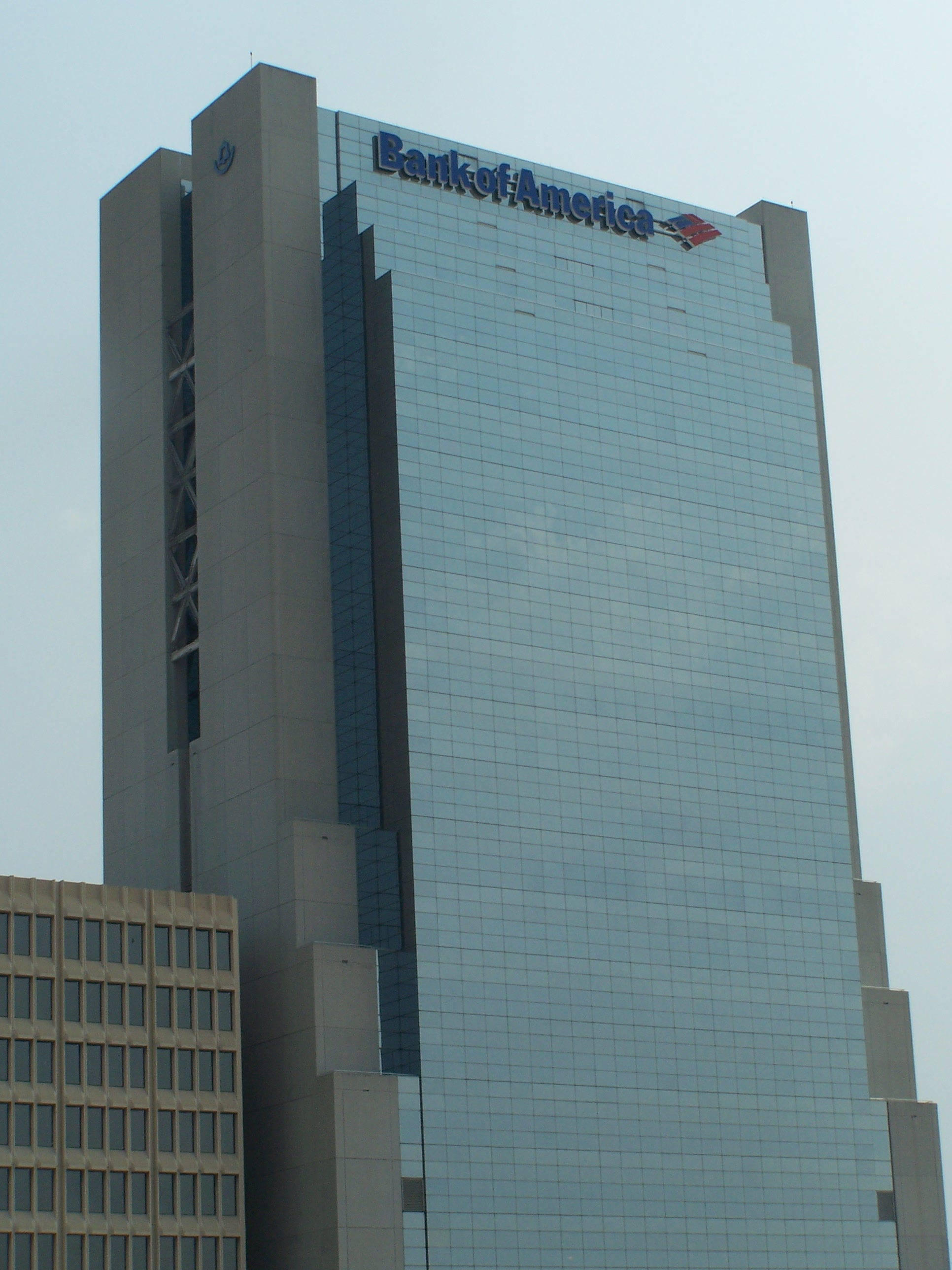 This is a photo taken by myself on May 13, 2007 of the Museum Tower in Miami, Florida. It was taken from the upper platform of the Government Center metrorail transfer station.